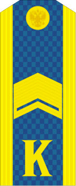 Russian rank insignia (1994-2010), here Kursant (wit the ranc "Master sergeant/ First sergeant" OR-8) – shoulder strap (Air Force, Airborne troops) field uniform.